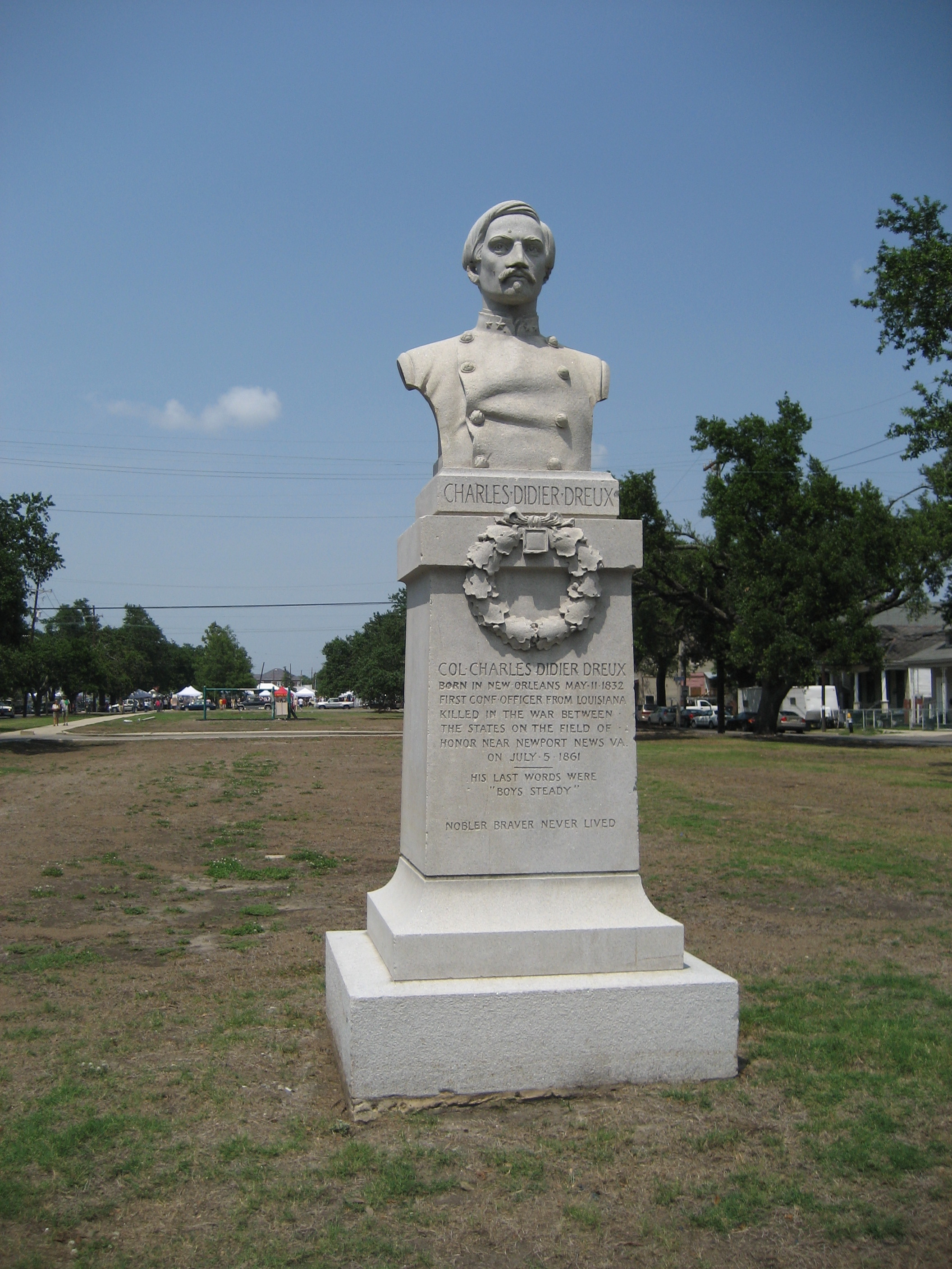 Davis Parkway, Mid City New Orleans. Monument to American Civil War soldier on neutral ground. Colonel Charles Didier Dreux Born in New Orleans May 11 1832 First Confederate Officer from Louisiana Killed in the War Between the States on the Field of Honor near Newport News, Virginia on July 5 1861 His last words were "Boys Steady" Nobler Braver Never Lived